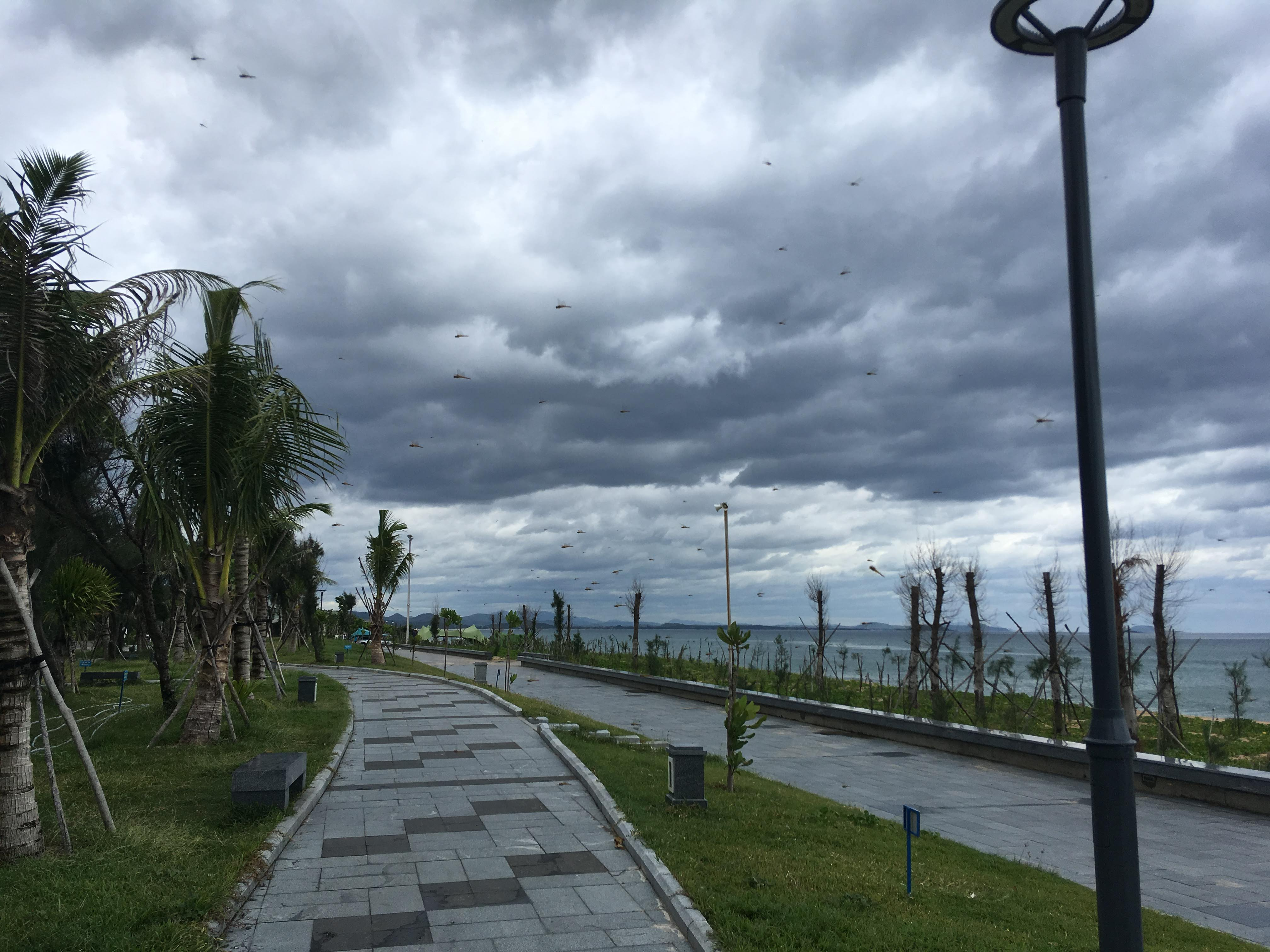 The seaside park in Tuy Hoa, Phu Yen Province.